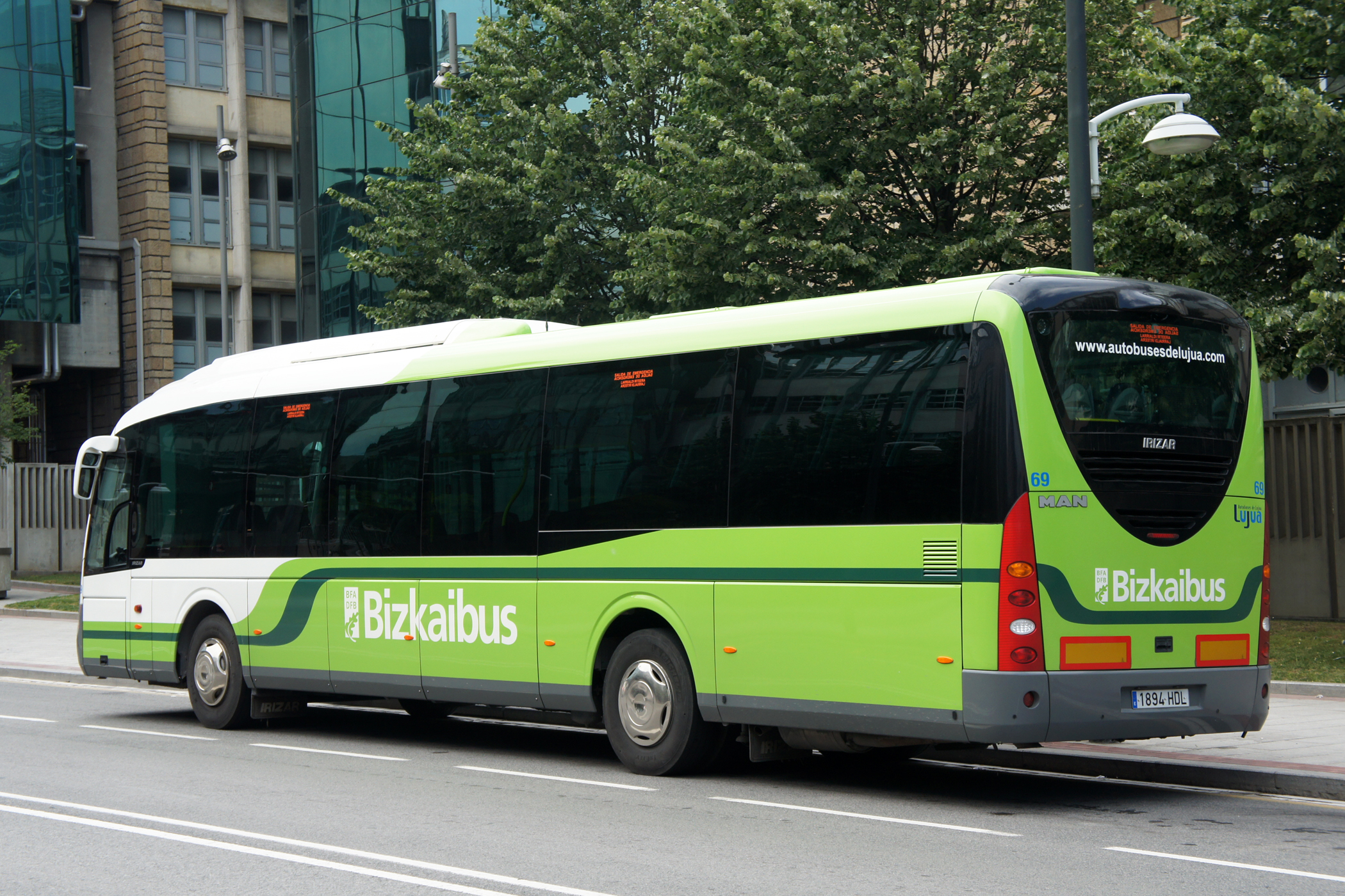 Bizkaibus in downtown Bilbao, Basque Country, Spain